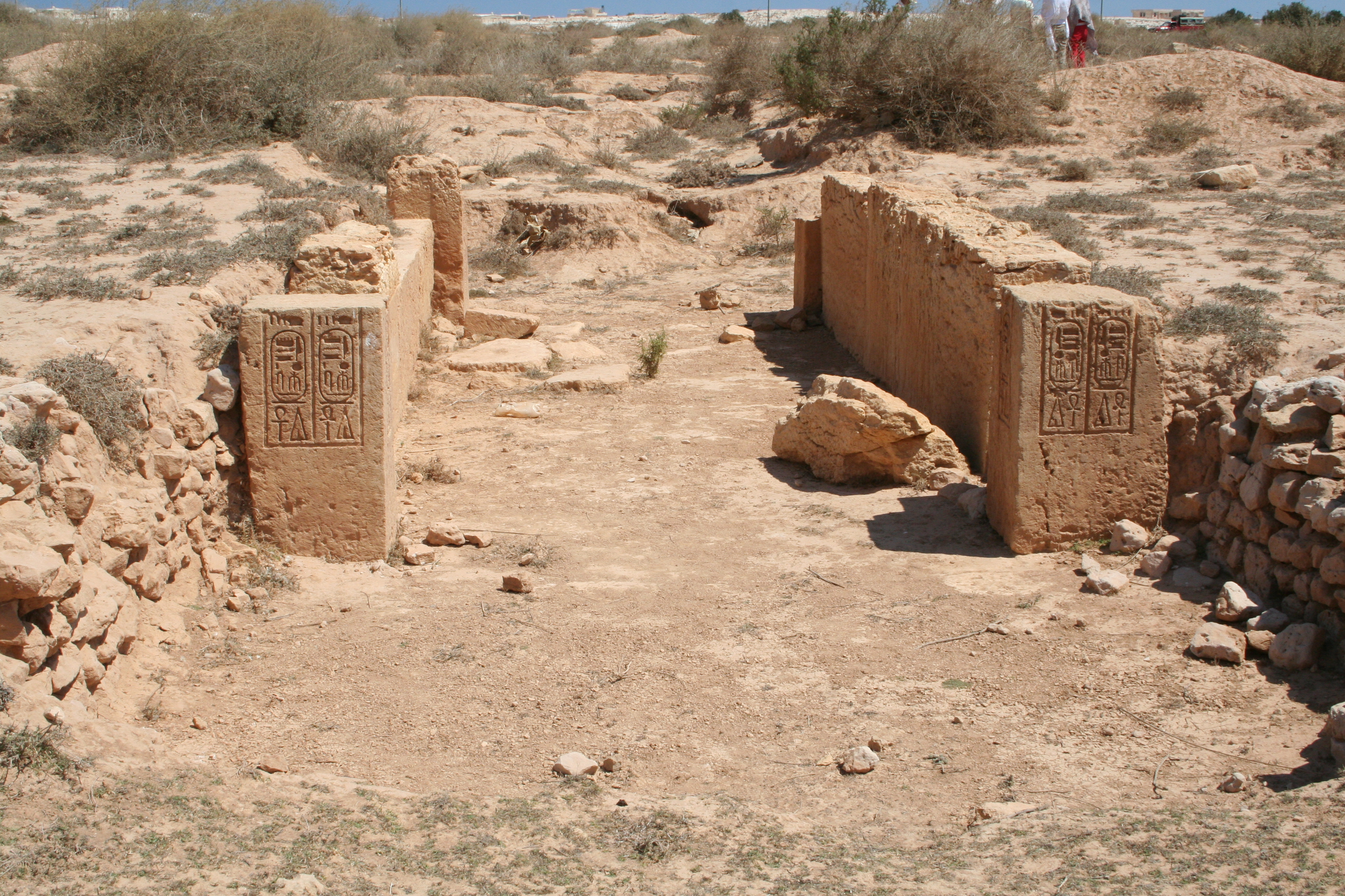 Ramesside fortress at Zawiyet Umm el-Rakham